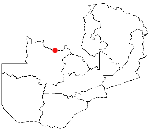 Kansanshi, Zambia Location Map.